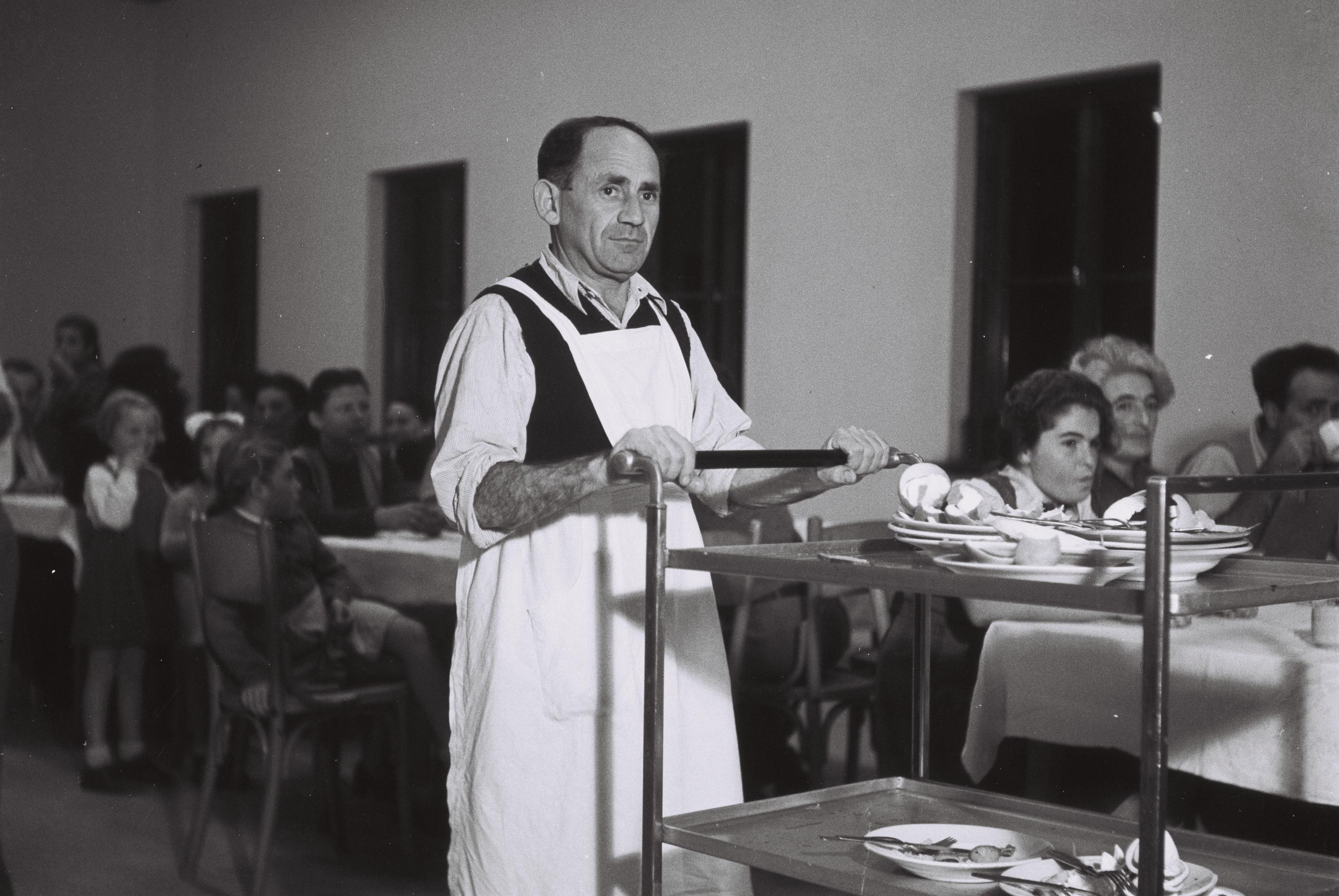 Kitchen duty in the dining room at Kibbutz Efal. תורנות חדר אוכל בקיבוץ אפעל Photo: Zoltan Kluger (1896–1977) Alternative names Qlwger, Zwlṭan; Zolṭan Ḳluger; Kluger, Z.; W. von Szigethy; W. Von SzighethyDescriptionHungarian-Israeli photographerDate of birth/death 8 February 1896 16 May 1977Location of birth/death Kecskemét ManhattanAuthority control : Q7035699 VIAF: 19504001 ISNI: 0000 0000 6686 1613 ULAN: 500483392 LCCN: no2008144265 Open Library: OL6614008A WorldCat creator QS:P170,Q7035699 , 08/01/1947